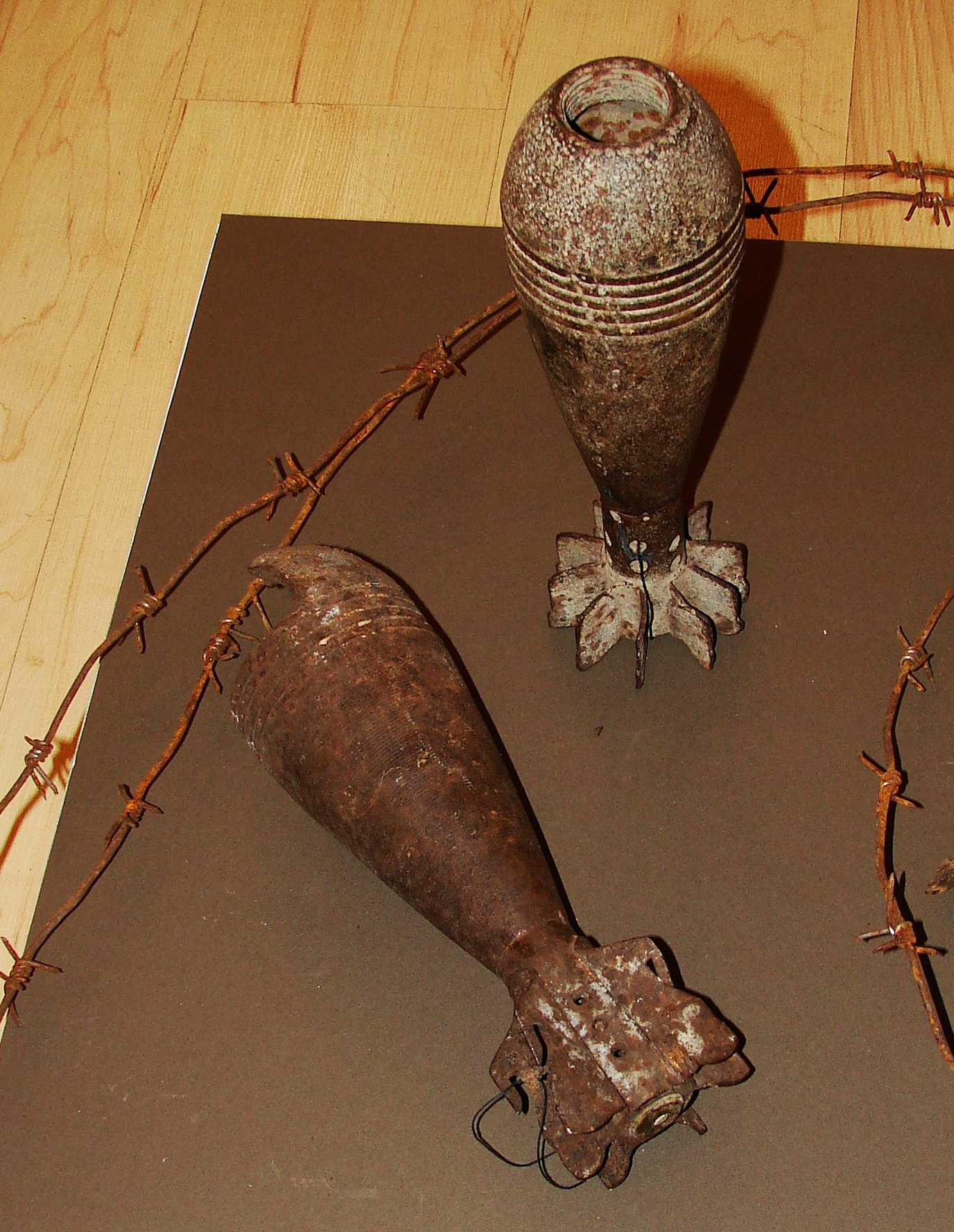 shell for USSR 82-mm mortar